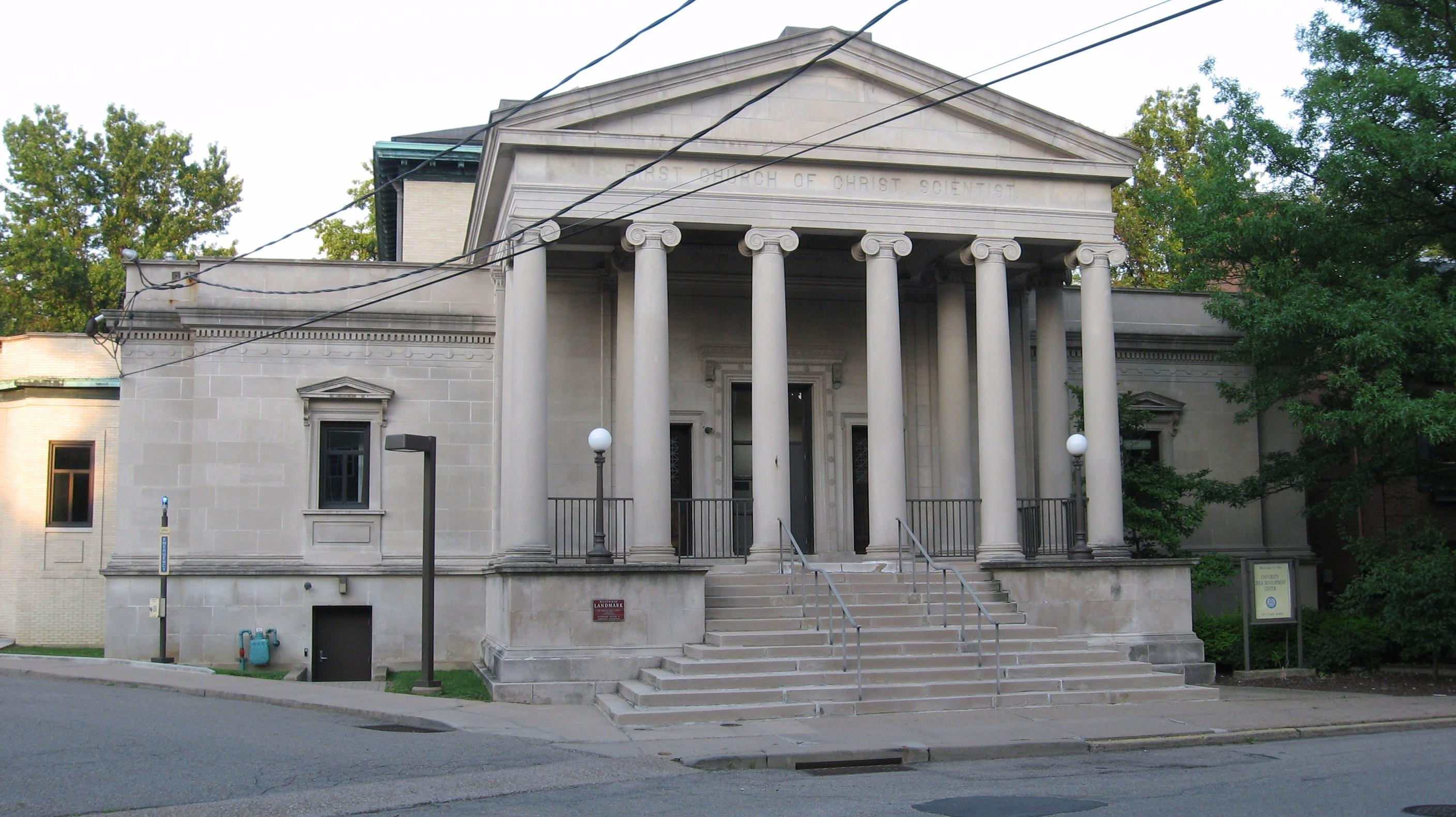 University Child Development Center at the University of Pittsburgh. Building is a former Church of Jesus Christ, Scientist church.40°26′53.3″N 79°56′42.5″W / 40.448139°N 79.945139°W